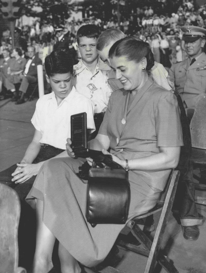 Edith Howley, wife of Colonel Frank L. Howley (Director OMG Berlin Sector), in Berlin with her three boys, 1945.